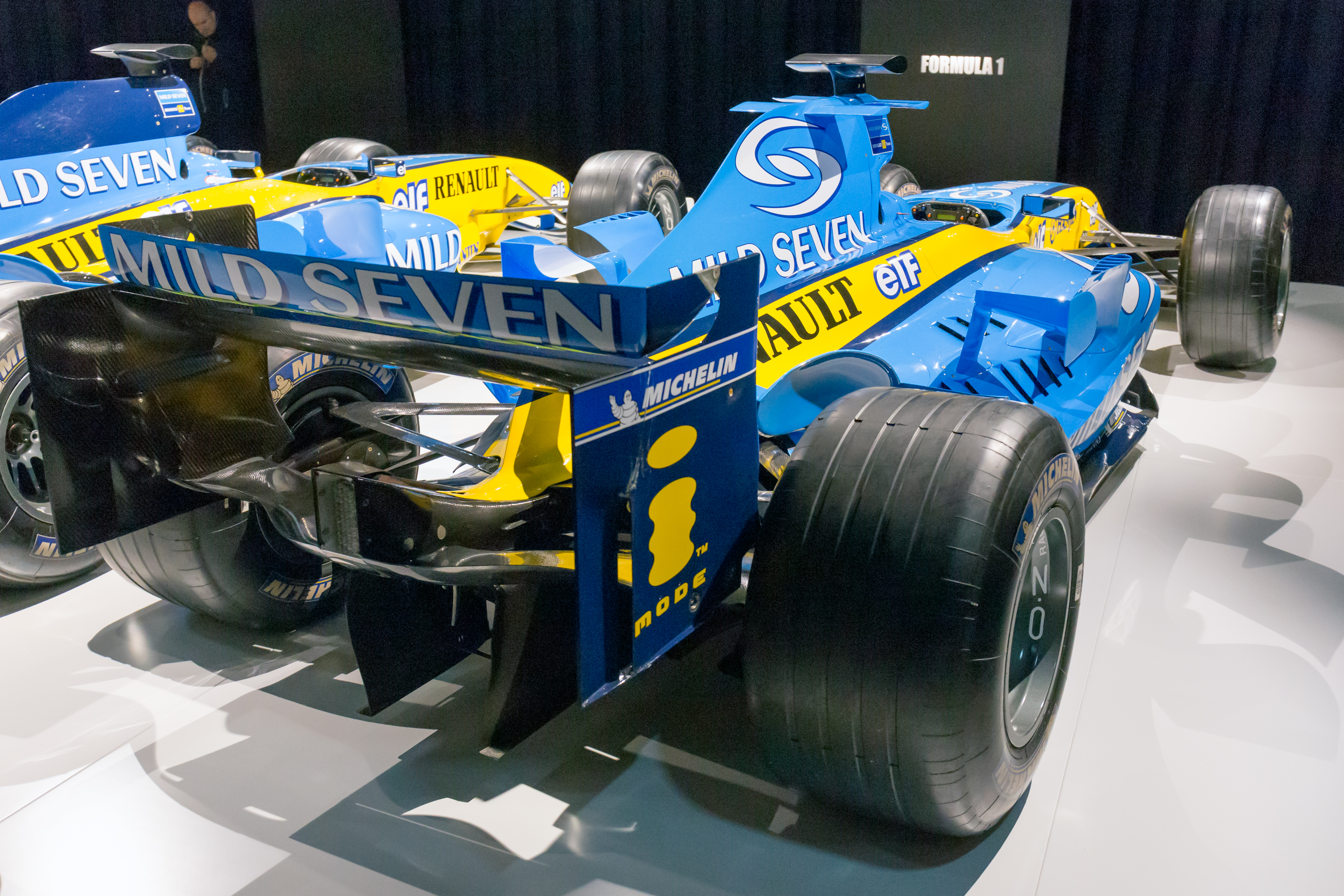 Museo y Circuito Fernando Alonso: 2004 Renault R24 of Fernando Alonso